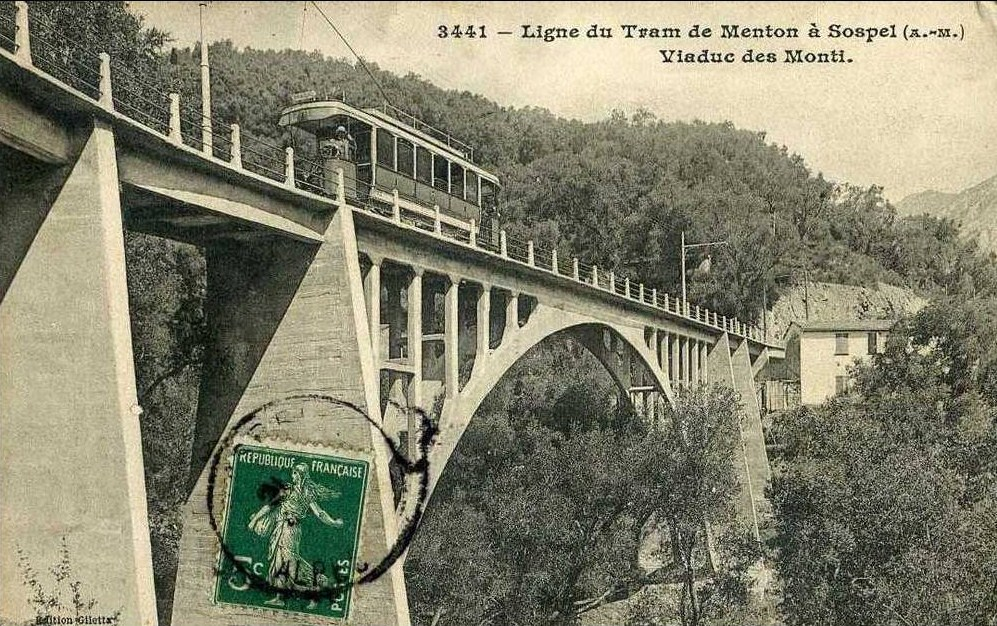 The viaduc de Monti on the former tramway line between Menton and Sospel (Alpes-Maritimes, France). The line was closed in 1931.